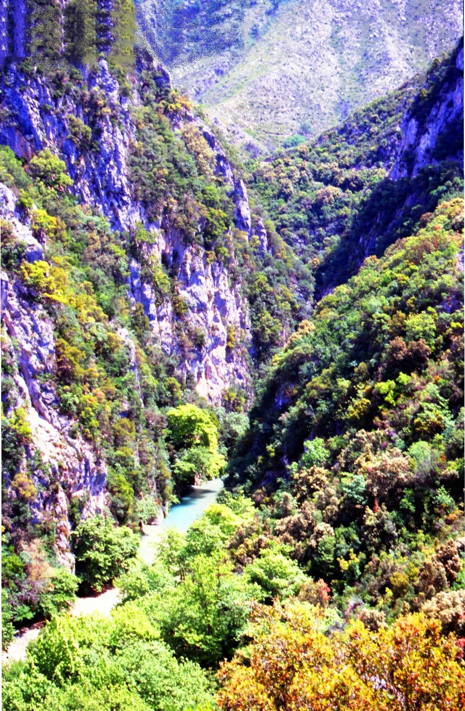 Acheron River Canyon, Greece